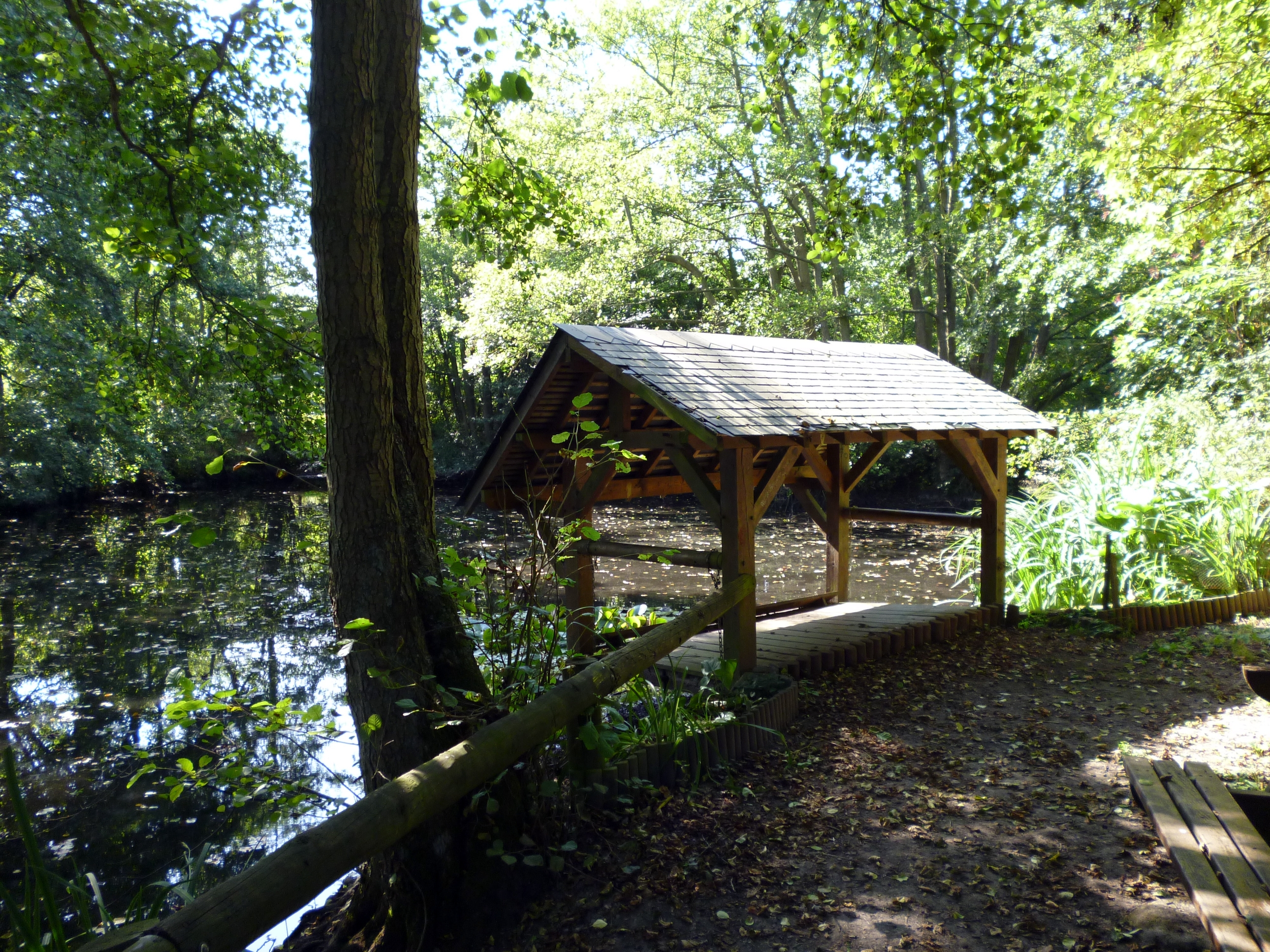 Lavoir at a pond in Le Theil-Nolent (Eure, Haute-Normandie, France).